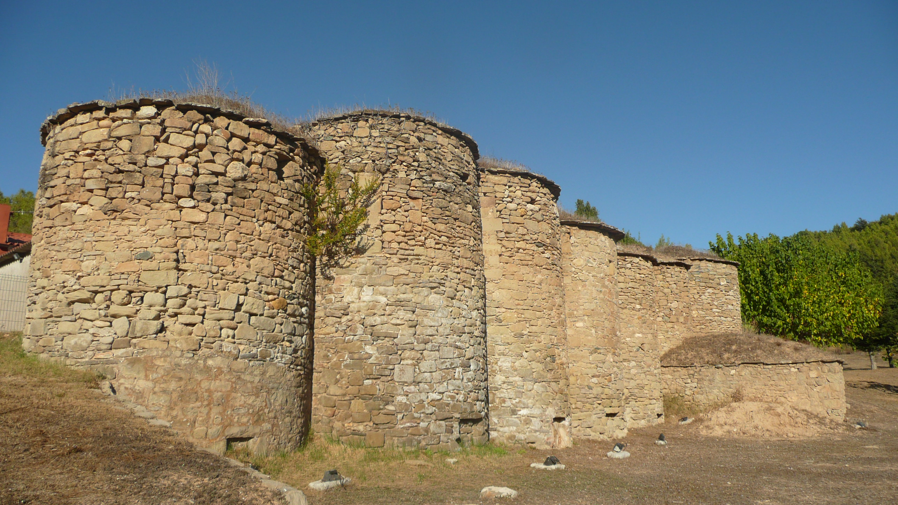 Groupe of seven press wine named of Tres Salts (Talamanca, Barcelona, España).